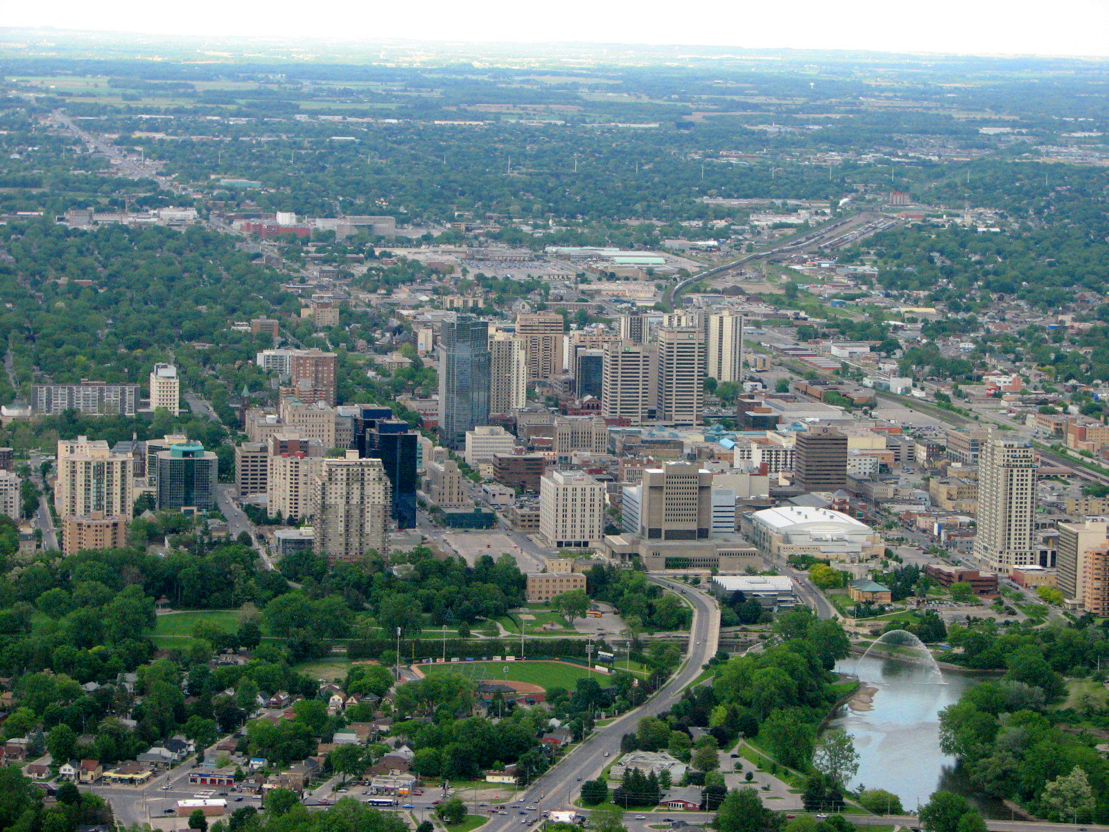 London, Ontario, Canada: The Forest City from above.